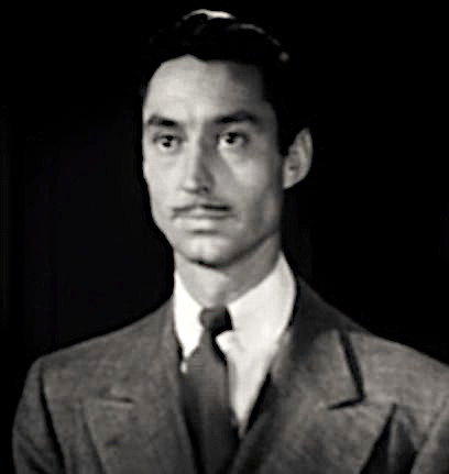 James Griffith in Blonde Ice - cropped screenshot